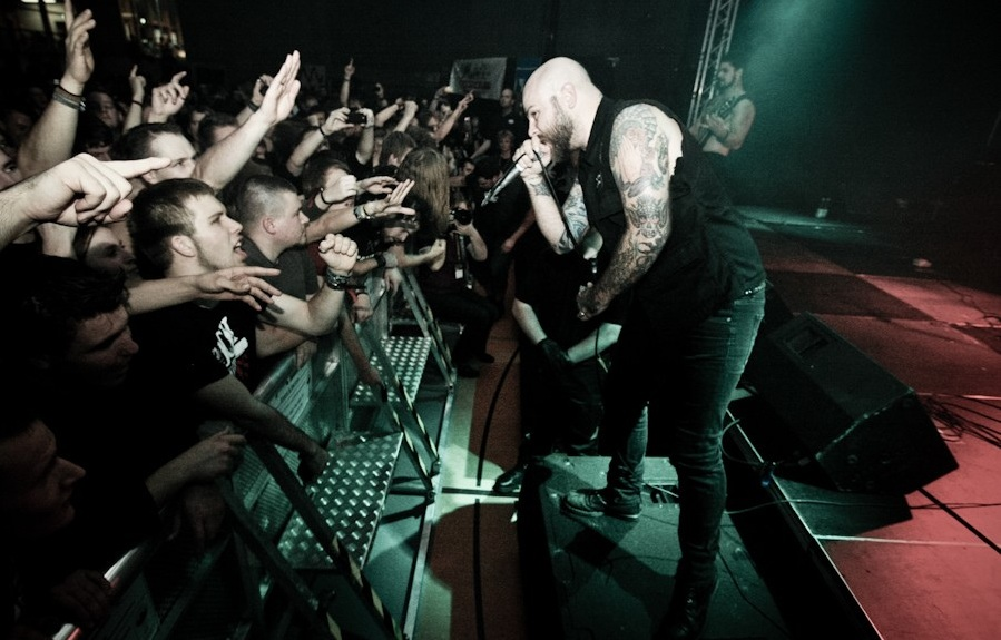 Demon Hunnter at the Rock Without Limits in Gomaringen, Germany in 2010.